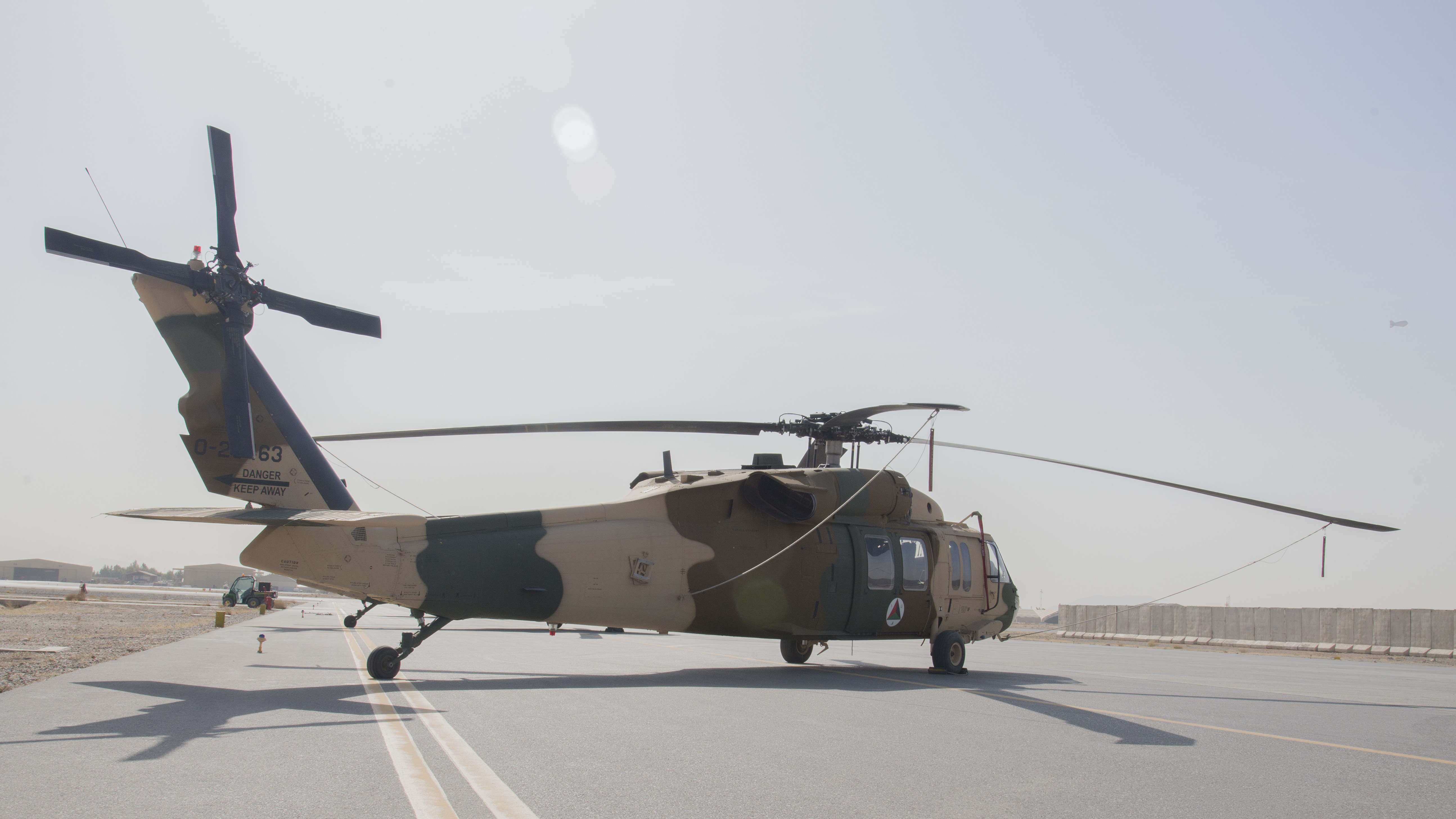 An Afghan Air Force UH-60 February 18, 2018, at Kandahar Air Wing, Afghanistan. The primary mission of the UH-60 will be troop and cargo transport. (U.S. Air Force photo by Staff Sgt. Jared J. Duhon)